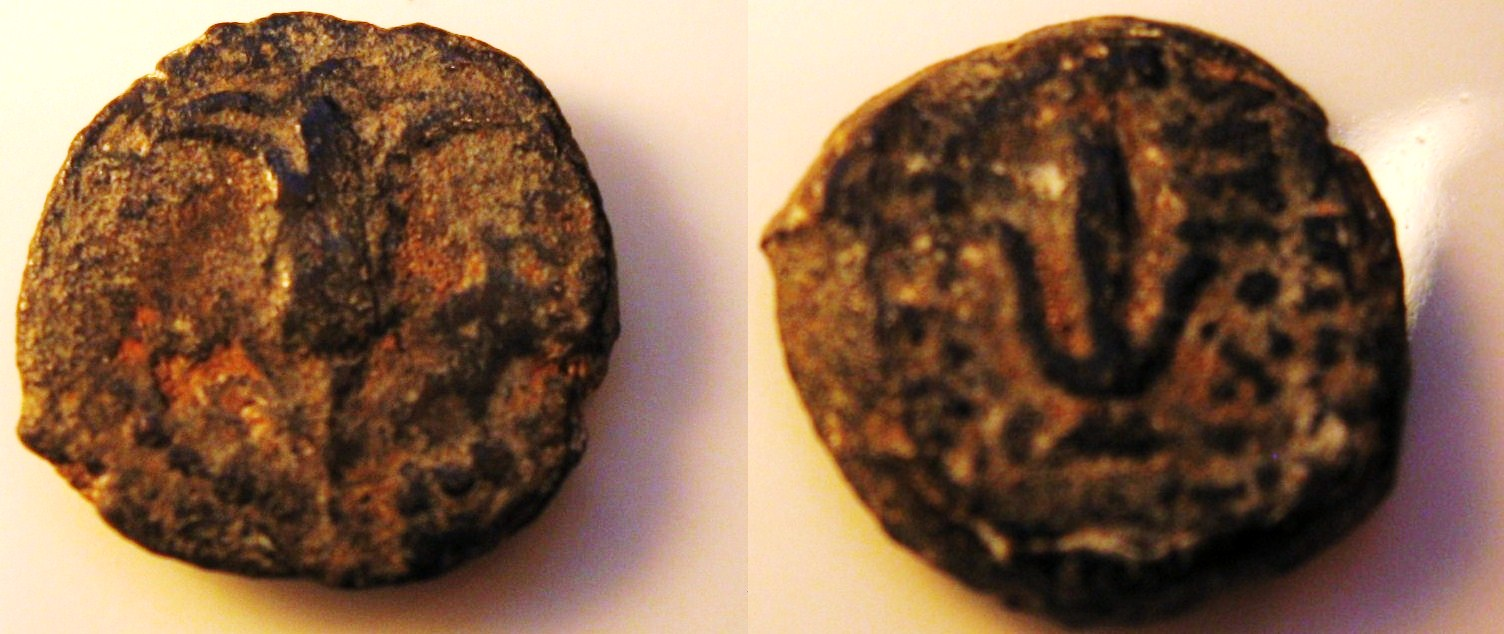 Bronze coin of Antiochus VII Sidetes. struckt in Jerusalem at 130-131 b.c. Itamar Atzmon's collection.